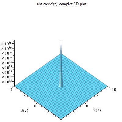 Coshc'(z) abs complex 3D plot